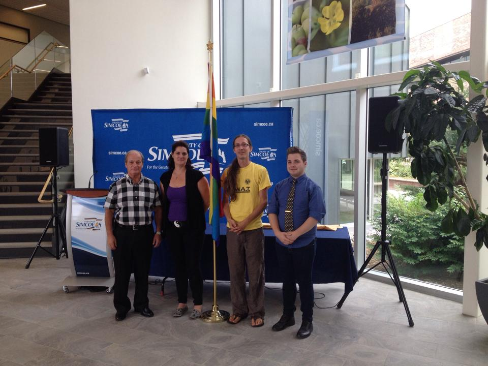 The County of Simcoe raised the rainbow flag and proclaimed Simcoe Pride Week (2014) for the first time on Tuesday, August 5. L to R: Cal Patterson (County Warden), Mary Sue Robinet (Simcoe Pride Chair), J. Andrew Baker (SImcoe Pride Treasurer), Brandon Amyot (Simcoe Pride Secretary)